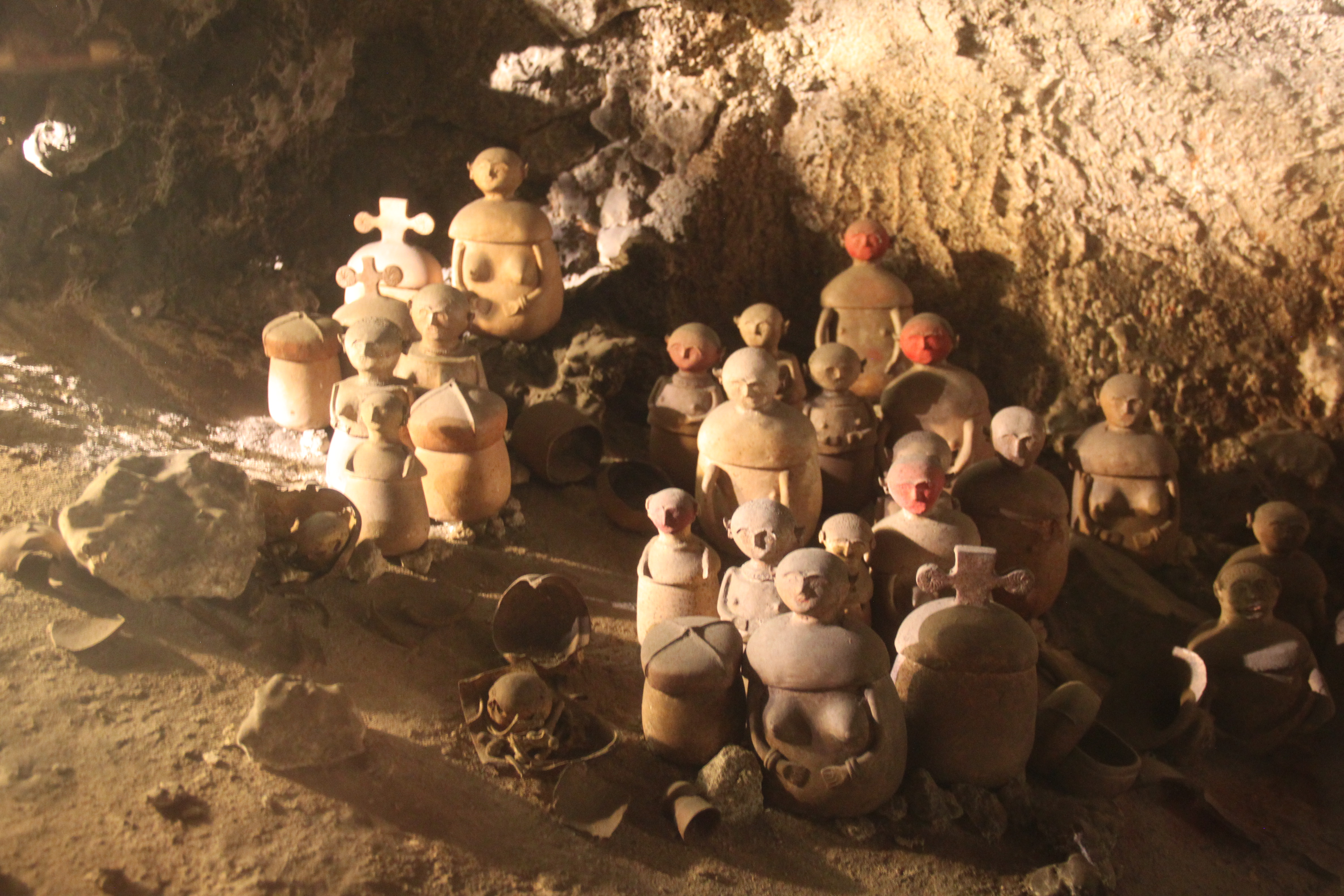 Maitum burial jars diorama form the Sarangani Province, Mindanao